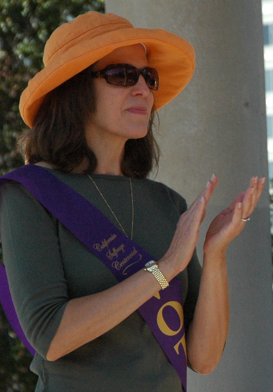 Oakland City Council member Pat Kernighan at the Oakland Suffrage Parade, October 2, 2011, commemorating the centennial of women gaining the right to vote in California.